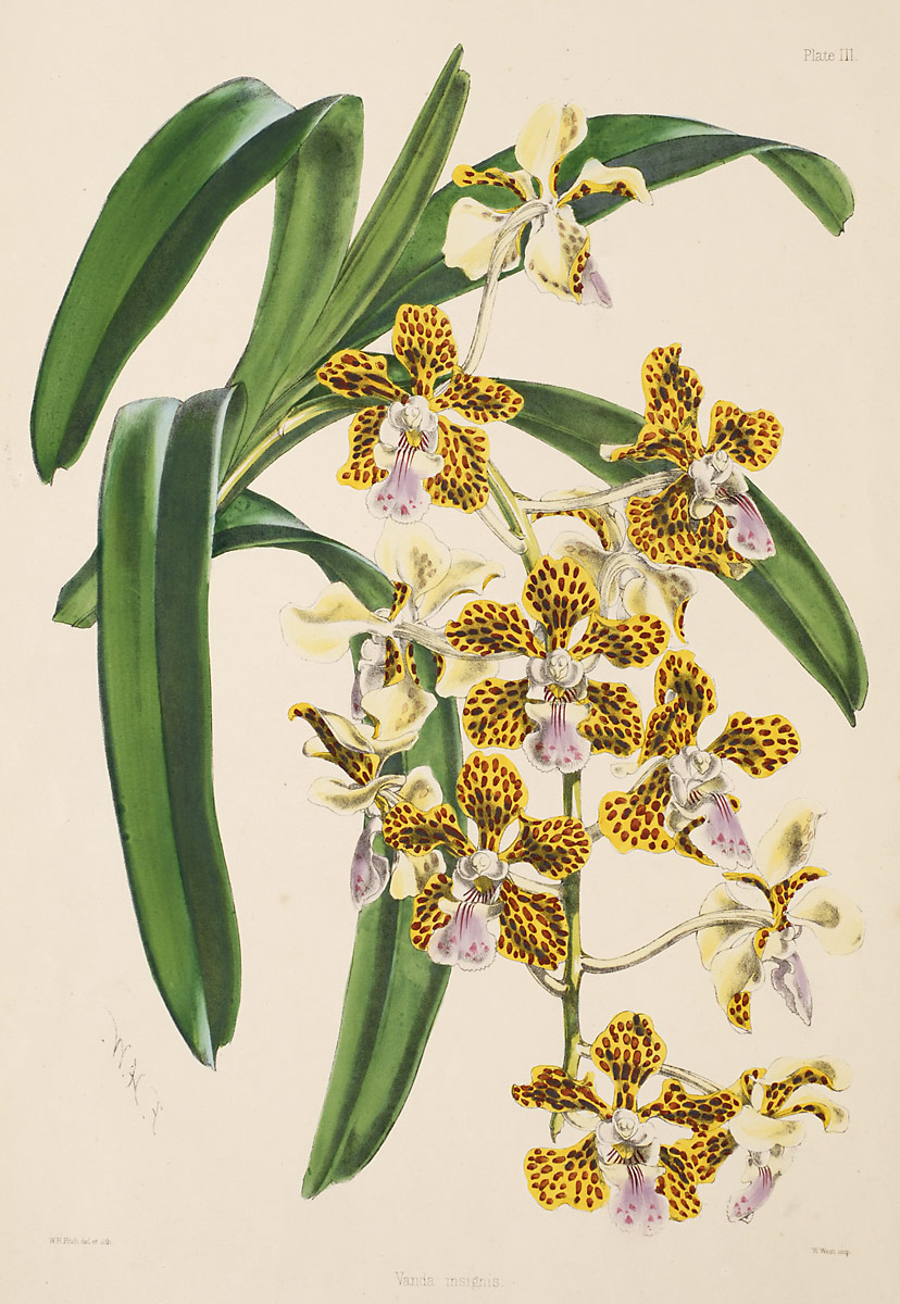 Illustration of Vanda insignis